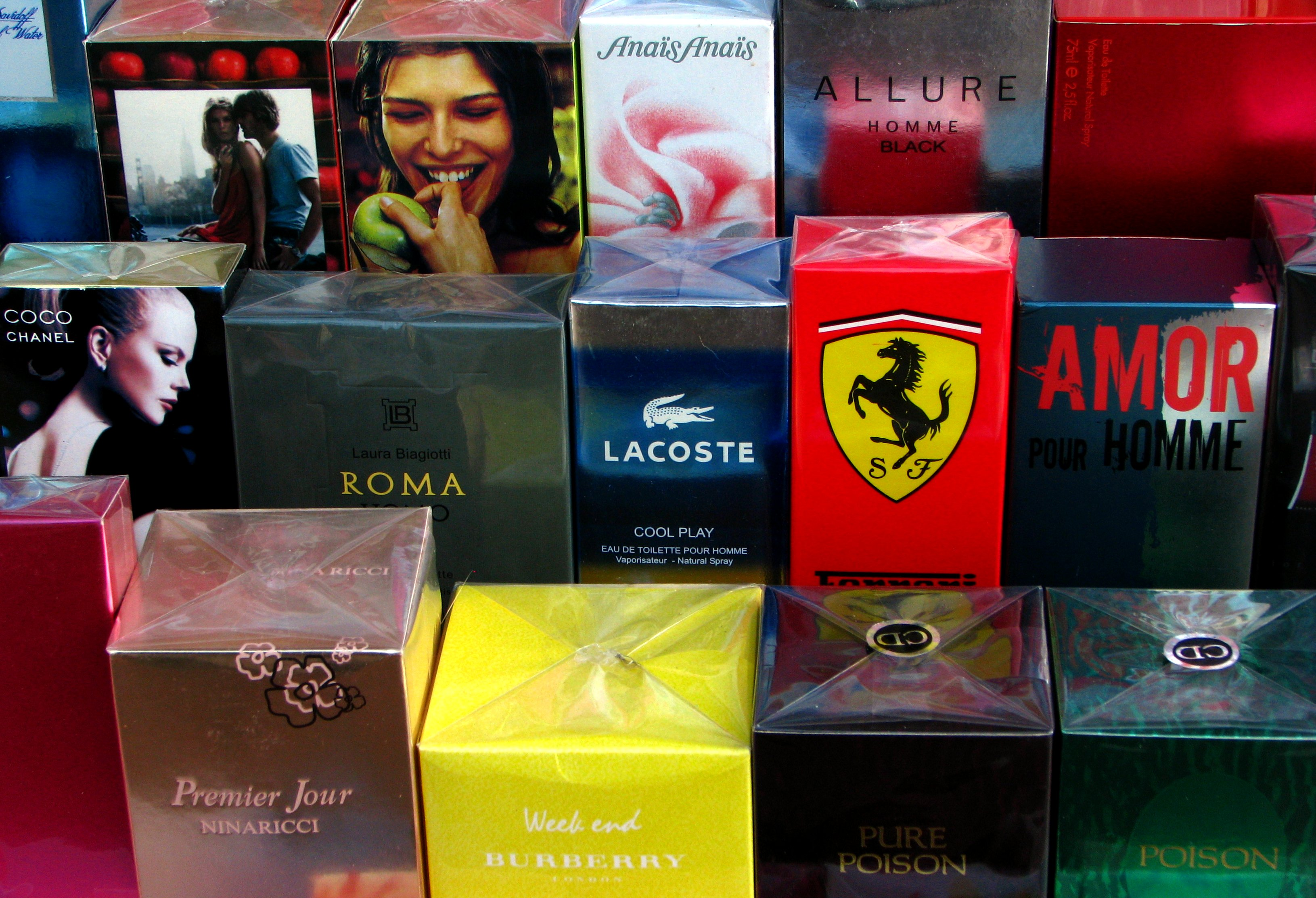 fake perfumes